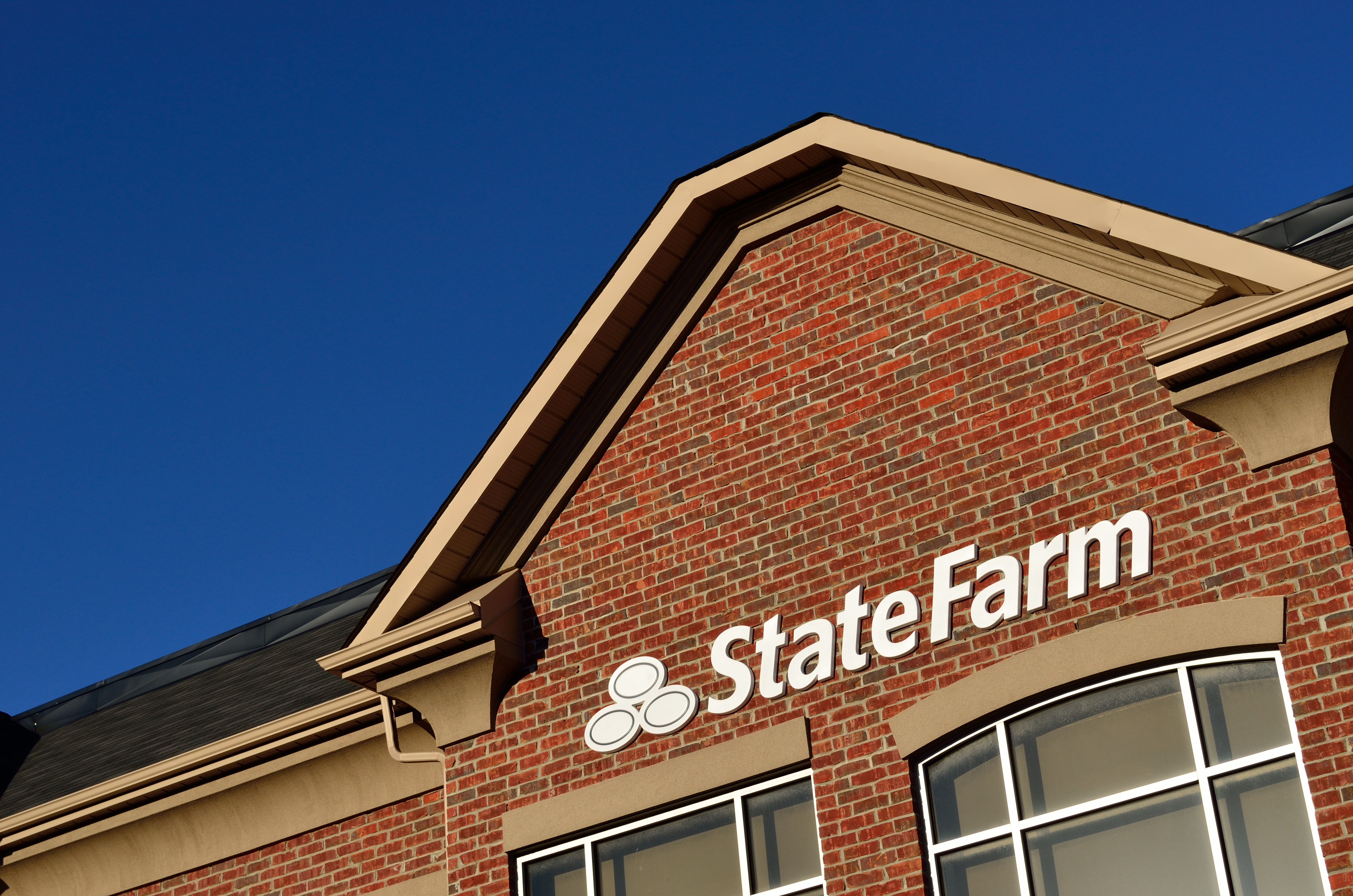 State Farm Insurance at Markham